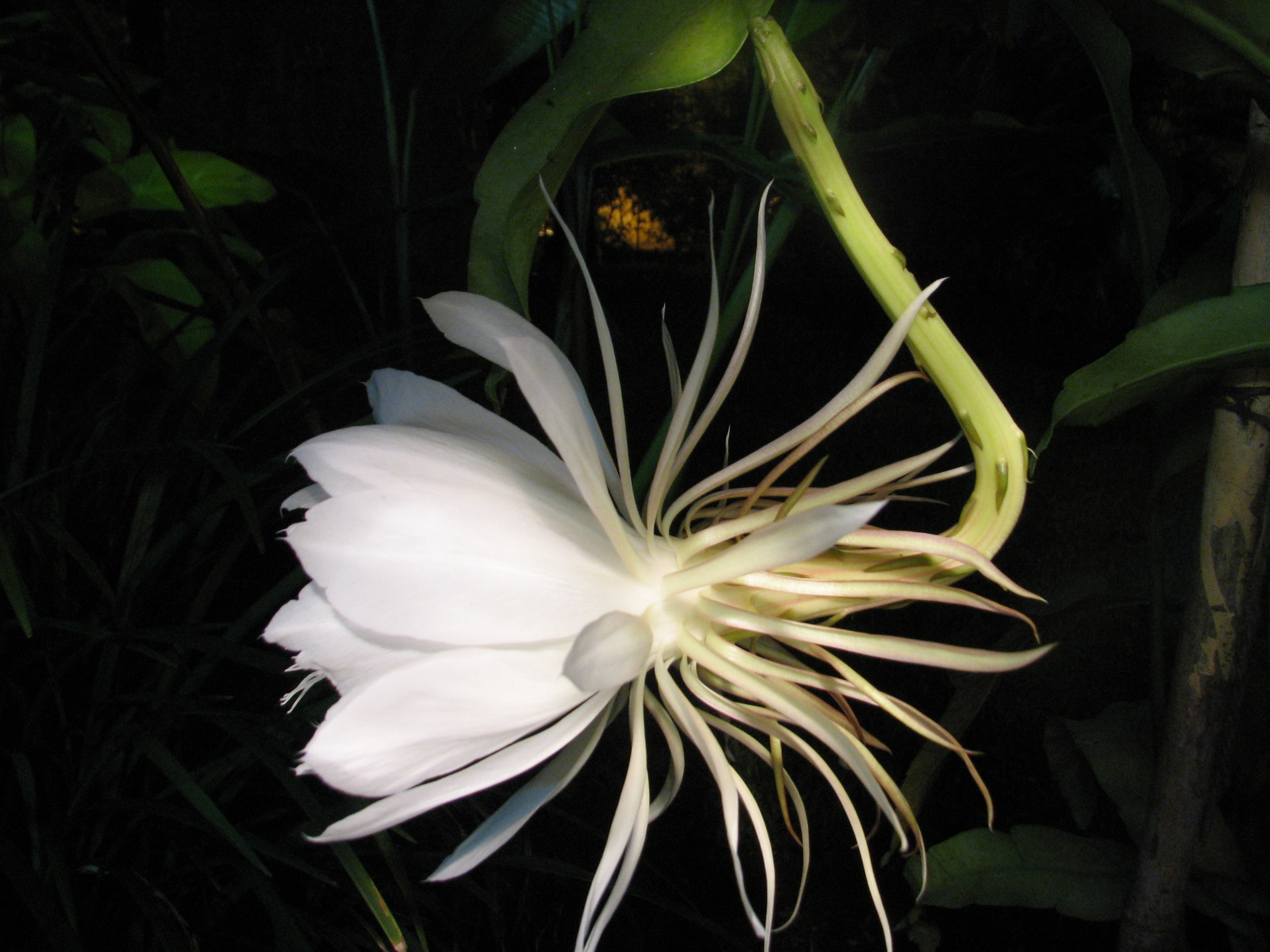 This is the side view of the flower of Epiphyllum oxypetalum. Illuminated with white LED light.